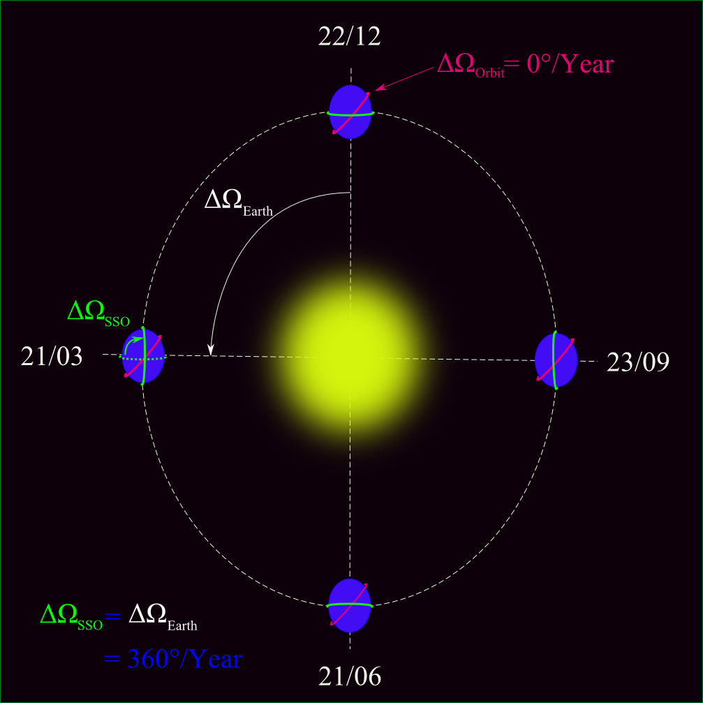 Diagram showing the orientation of a Sun-Synchronous orbit (Green) in four points of the year. A non-sun-synchronous orbit (Magenta) is also shown for reference.